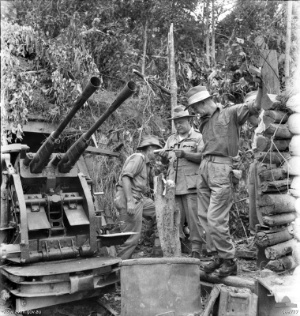 General Thomas Blamey , Commander-In-Chief, Allied Land Forces, South West PacificC area, and Brigadier David Whitehead, commander 26 Infantry Brigade, inspect a captured Japanese 25mm gun mounted on rails at Essex Ridge, Tarakan Island, Netherlands East Indies. Captain G.B. Travis, Officer Commanding D Company, 2/24 Infantry Battalion, is in the background.